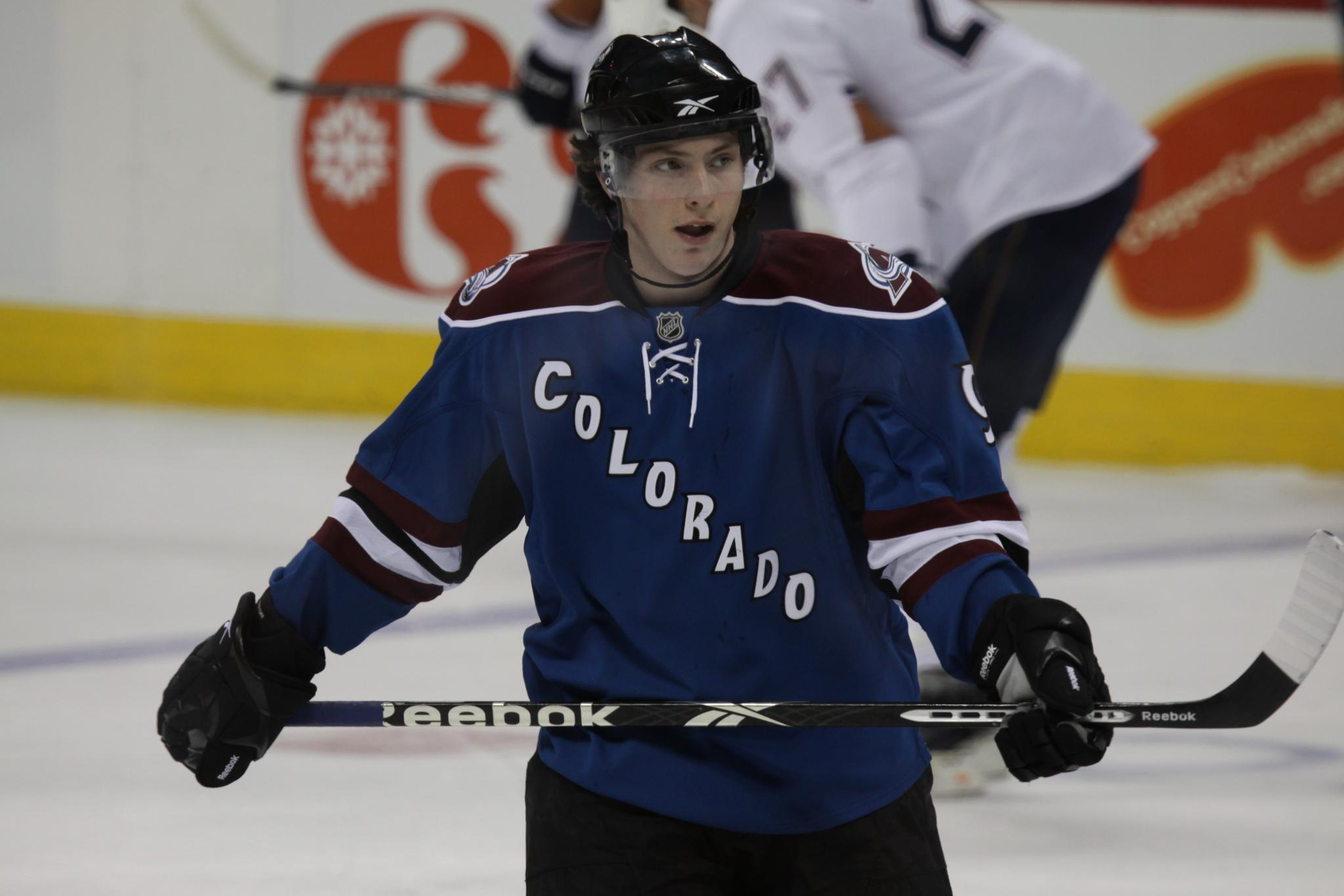 Edmonton Oilers at Colorado Avalanche, 2/6/10 @ Pepsi Center, Denver CO USA